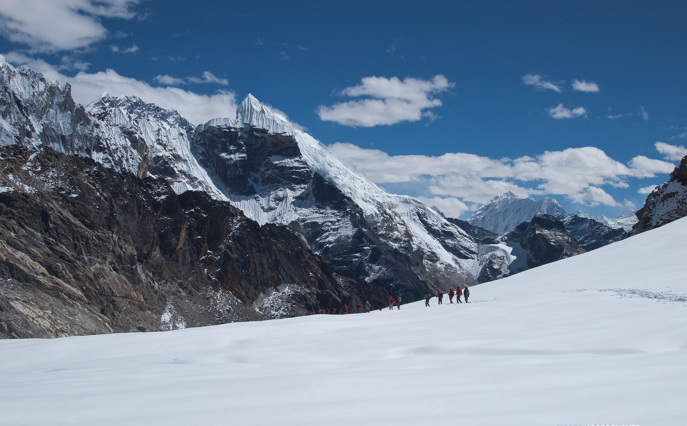 Cho La pass views down to the east, Nepal